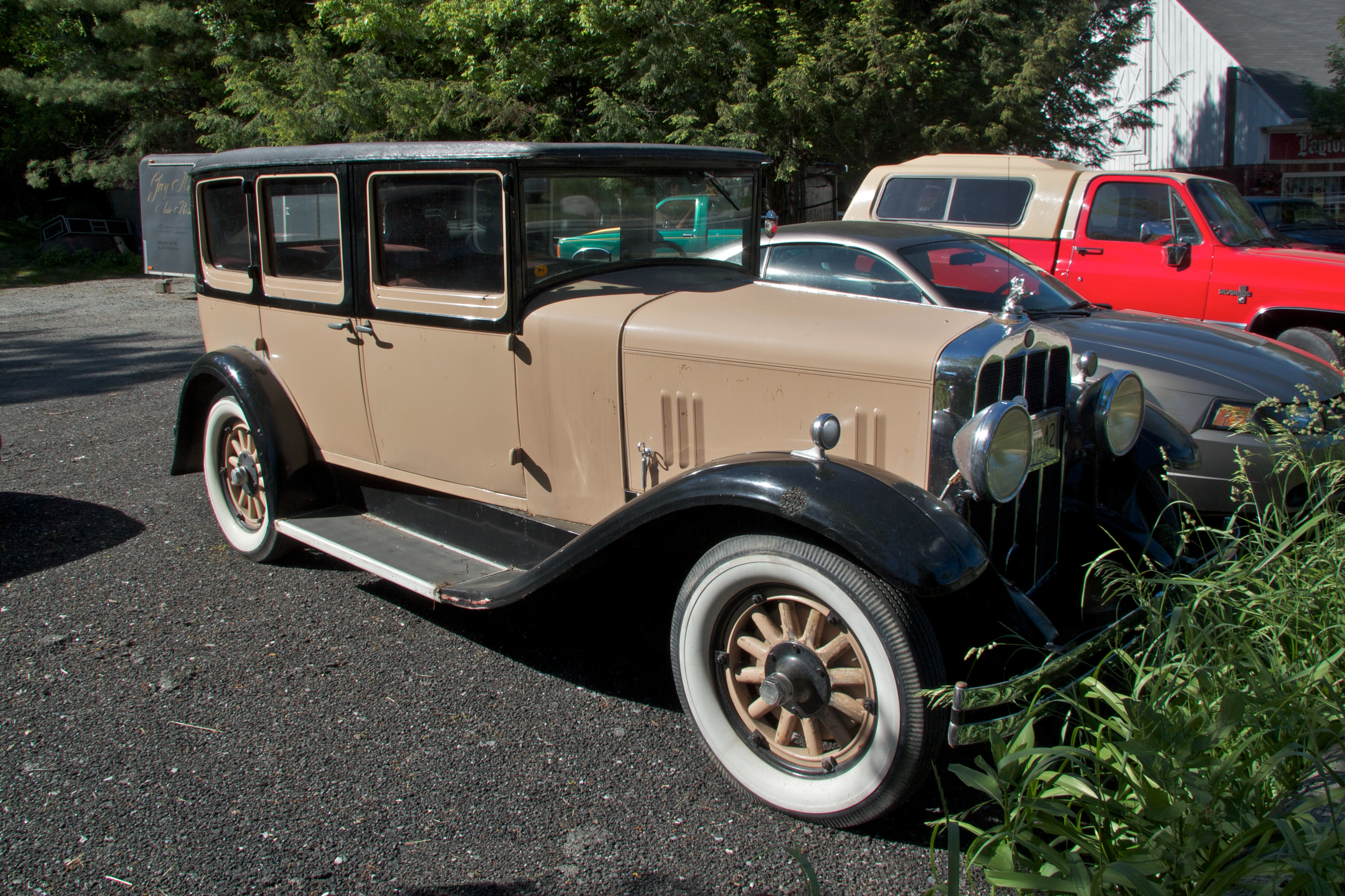 Photo of a 1929 Franklin 135 automobile. Photographed in Layton New Jersey in the lot next to the Layton Garage. This photo is posted on the aforementioned website.